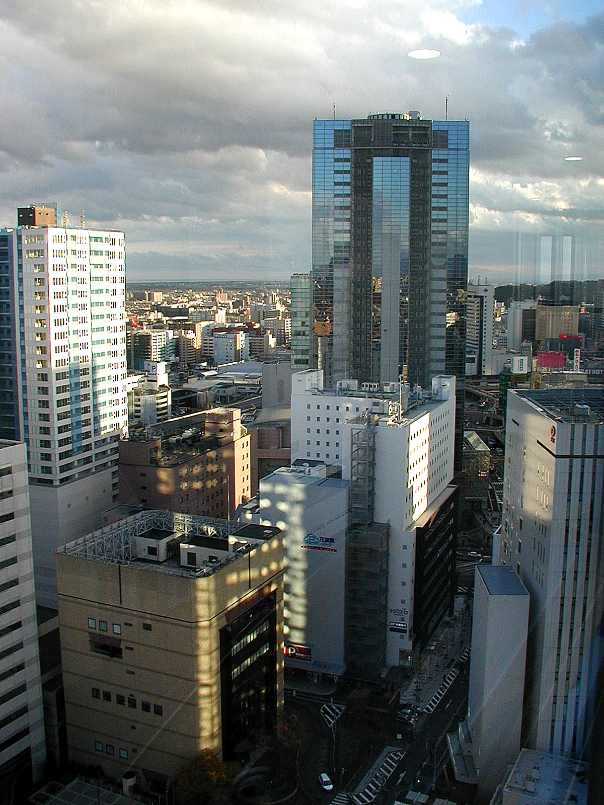 AER & buildings standing in the south part of Kakyoin 1-chome near Sendai station